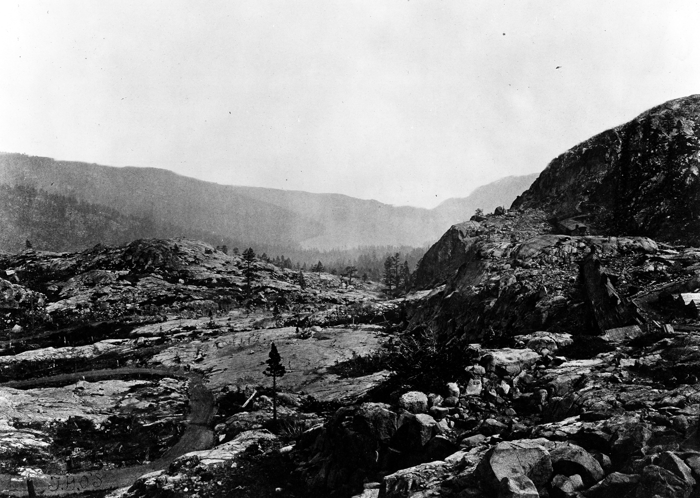 Donner Lake Pass in the Sierra Nevada Mountains of California. Photo by T.H. O'Sullivan.U.S. Geological Exploration of the Fortieth Parallel (King Survey). Digital File:kingp052 ID. King, 52 Original found at [1]. The King survey took place in the 1870s. Uploaded to illustrate article entitled "Donner Pass."